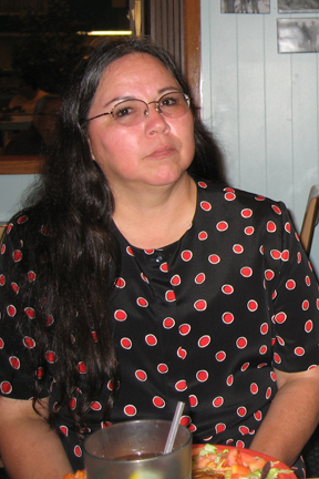 Lisa Telford, Haida basketweaver from Alaska